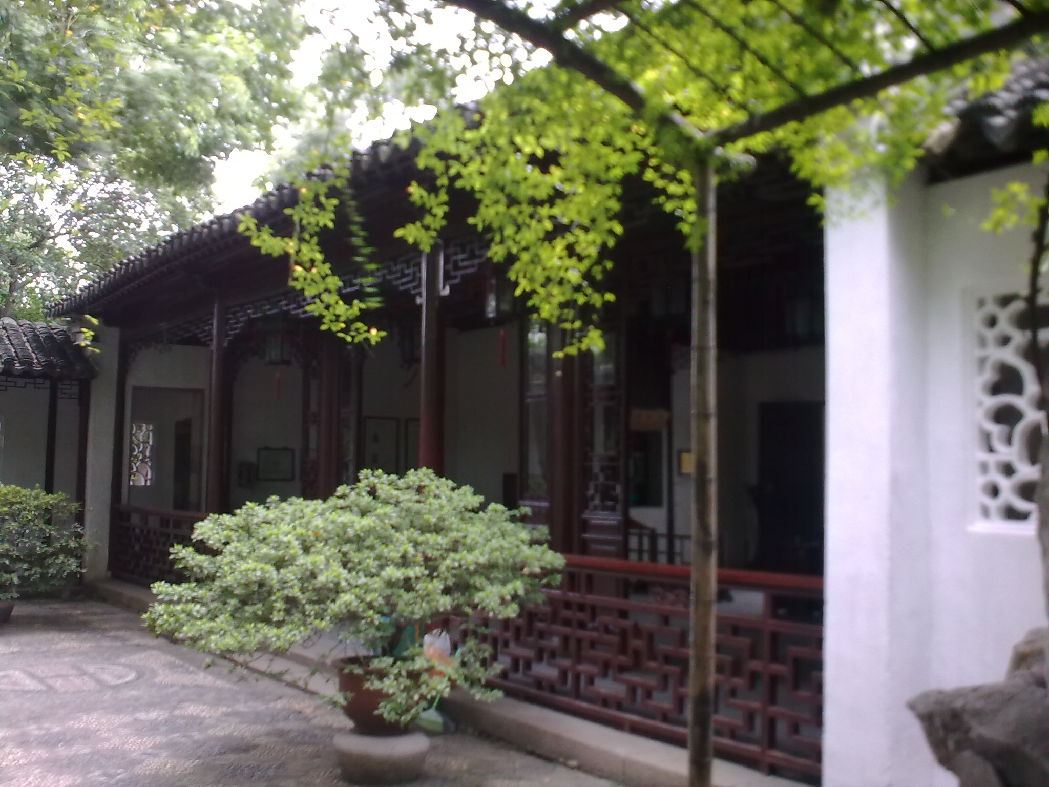 Entry Hall